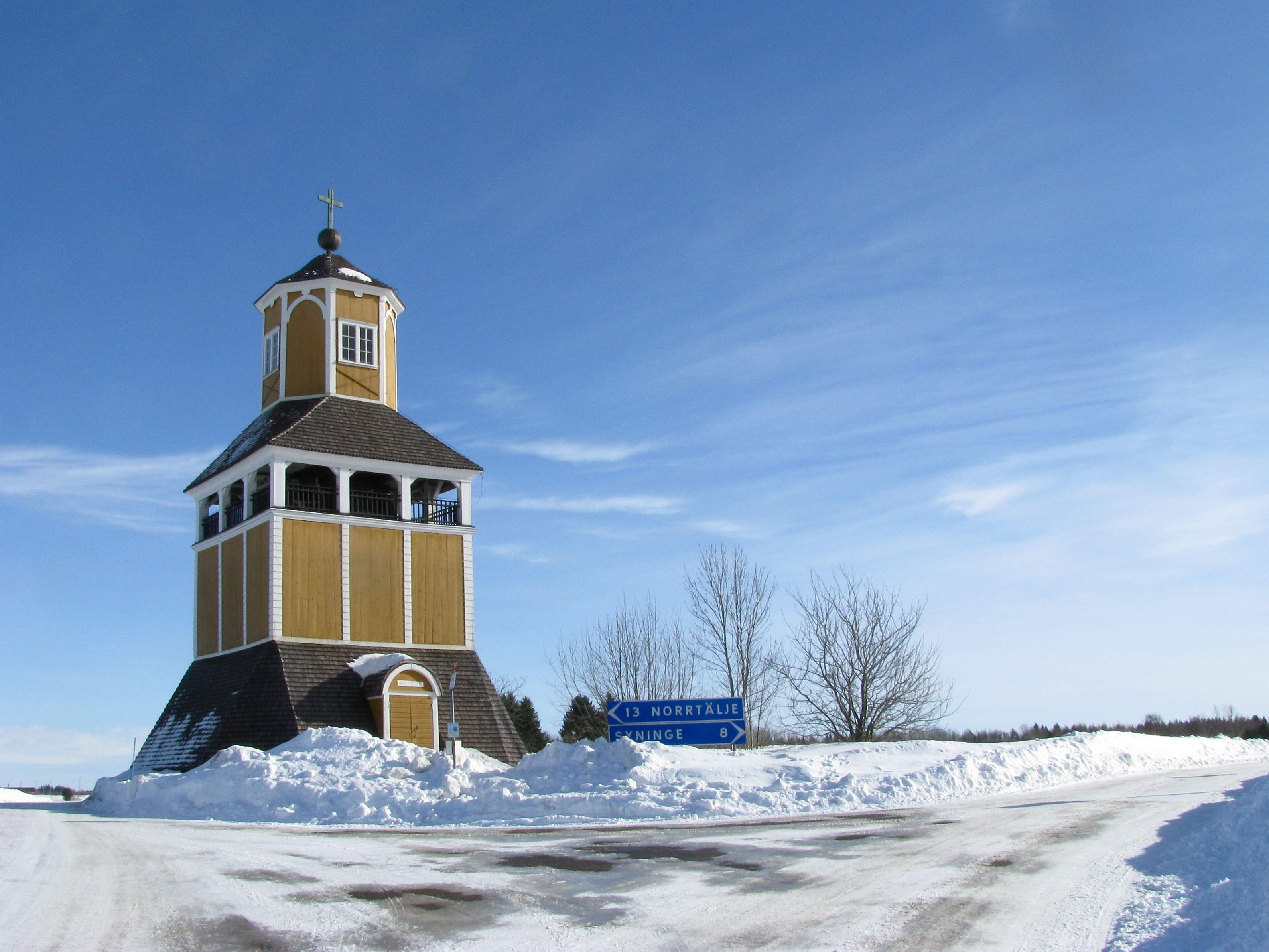 Belfry in Lohärad parish, Norrtälje Municipality, Sweden